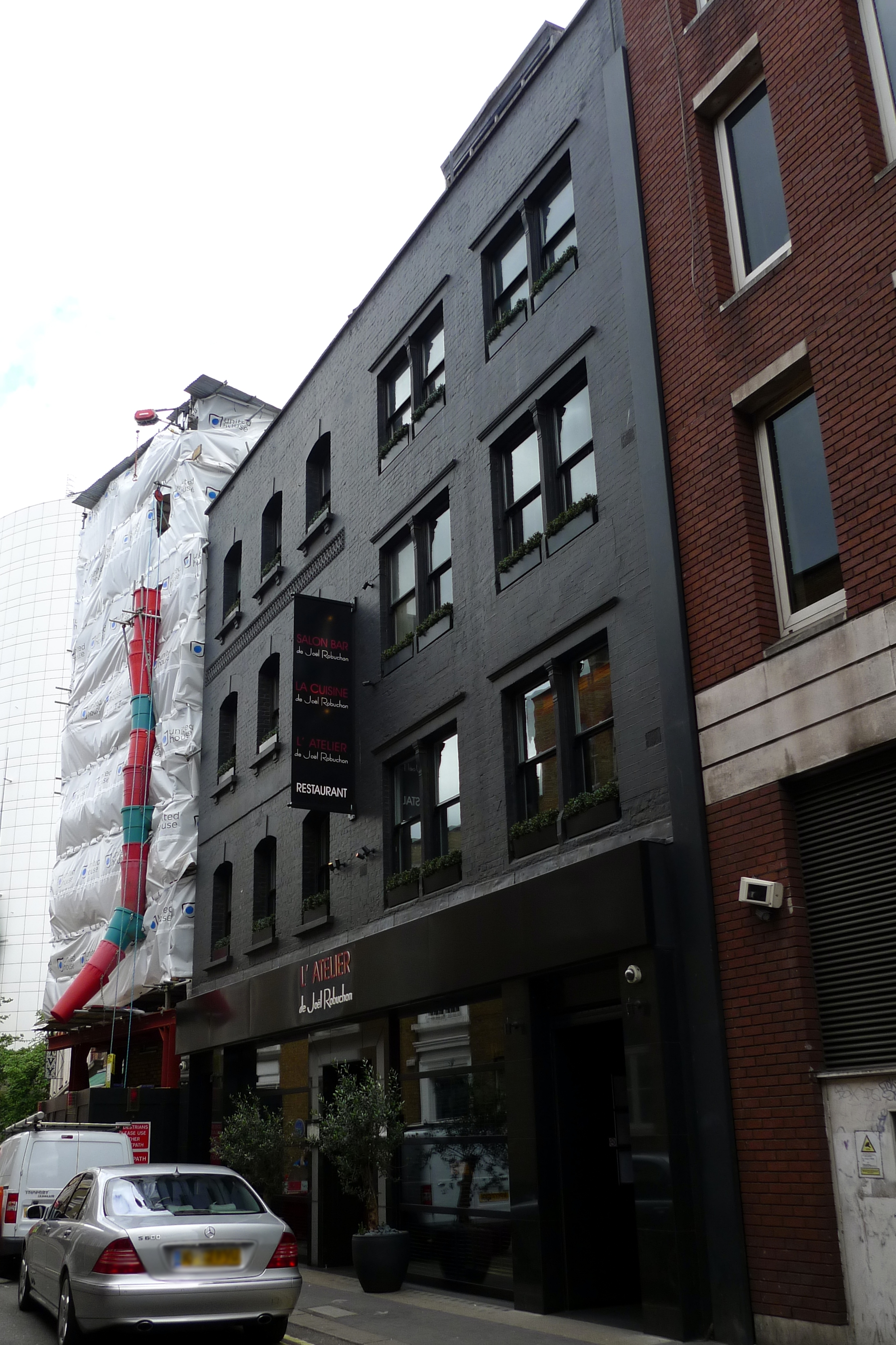 Upmarket French dining near The Ivy . Address: 13-15 West Street. Owner: Joel Robuchon ( website ). Links: London Eating Qype --- The Guardian [Matthew Norman]